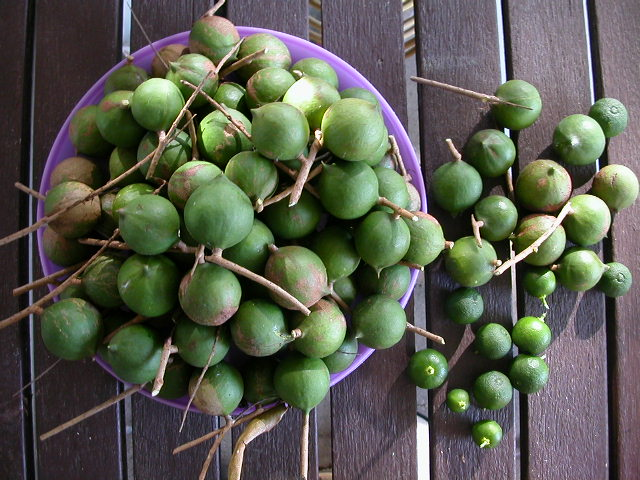 A lot of macadamia! Inside the green skin is brown tough shell. You need to open the sheel and take out the nuts and then bake them to eat.